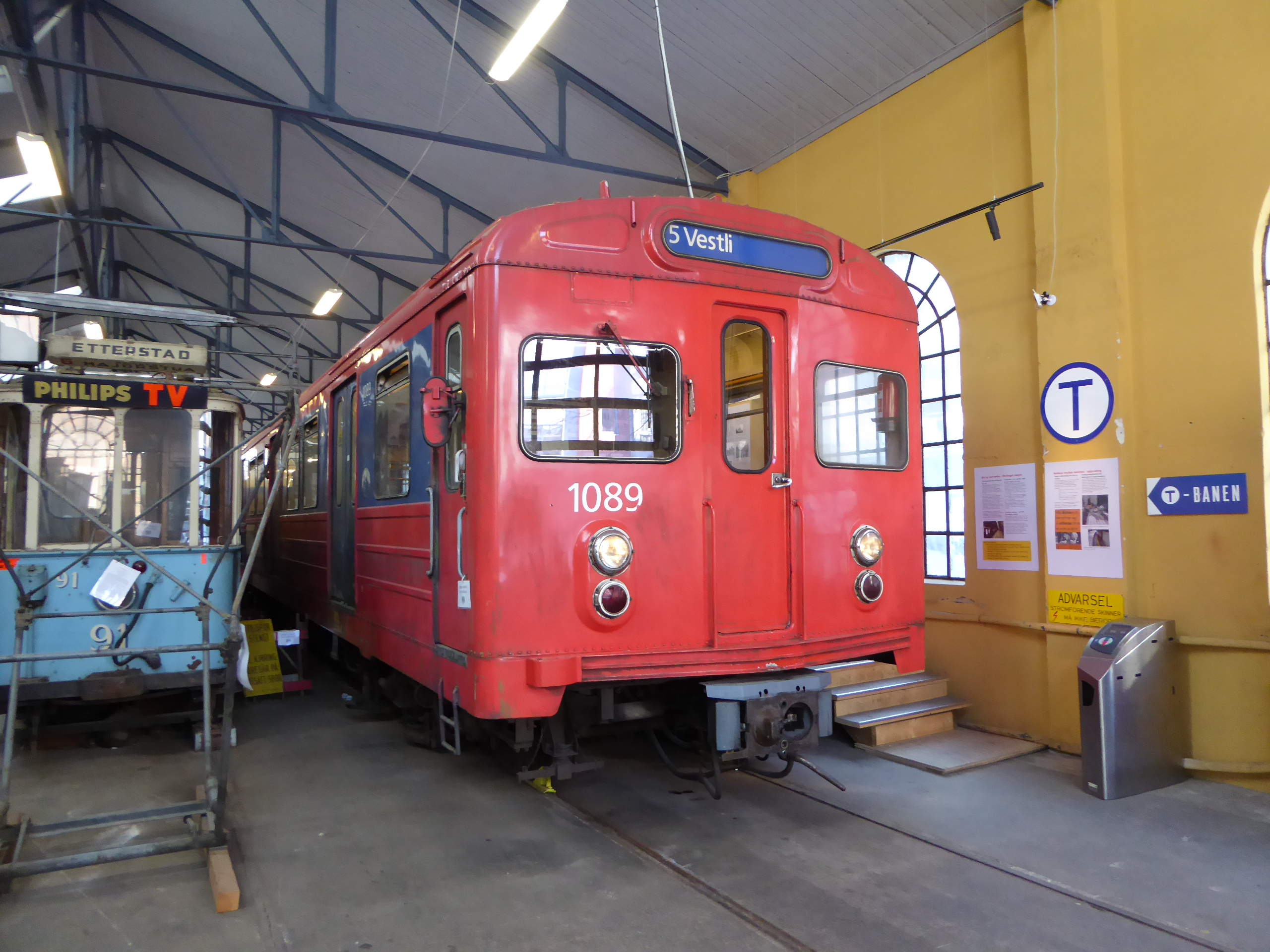 Tunnelbane car OS 1089 from 1967 at Sporveismuseet in Oslo.